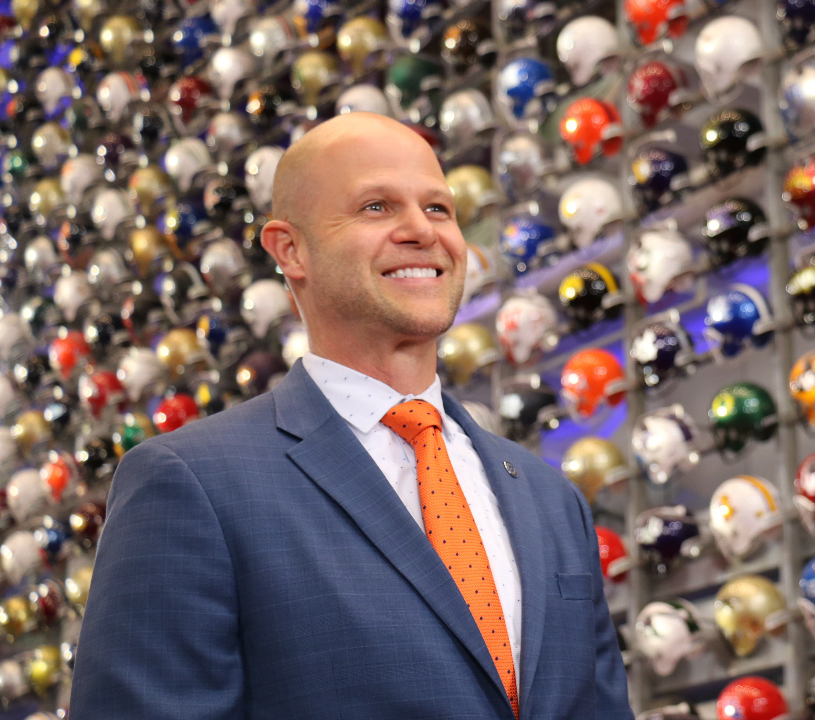 Heisman Winner Danny Wuerffel attending the 2019 CFA Show and presenting the Wuerffel Trophy, awarded to one player for outstanding Academic, Athletic and Community Service.